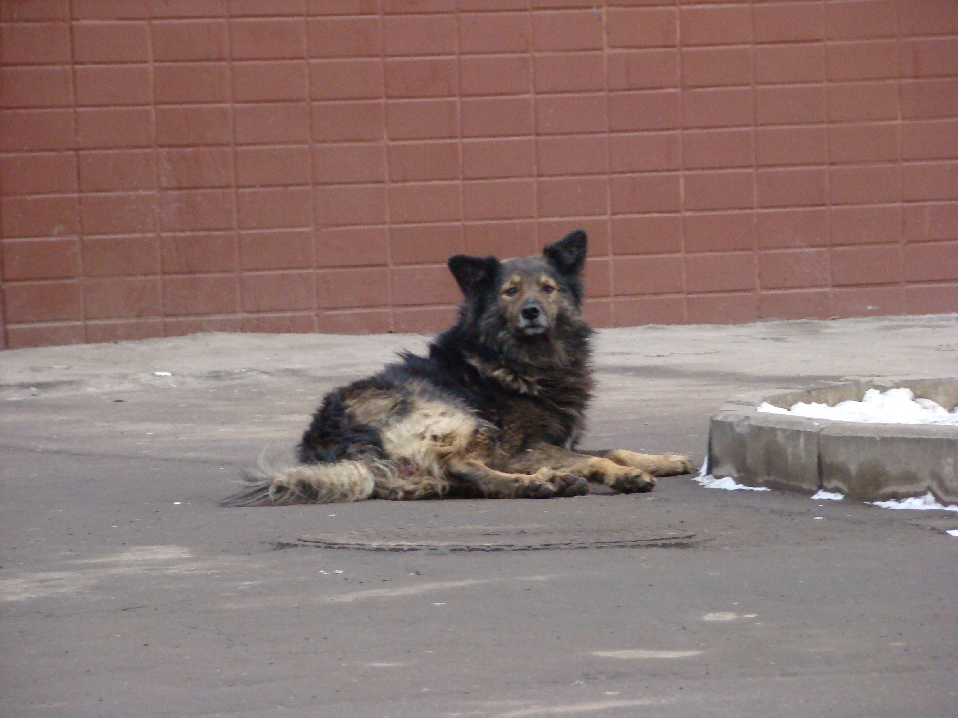 Street dog. Moscow, Russia